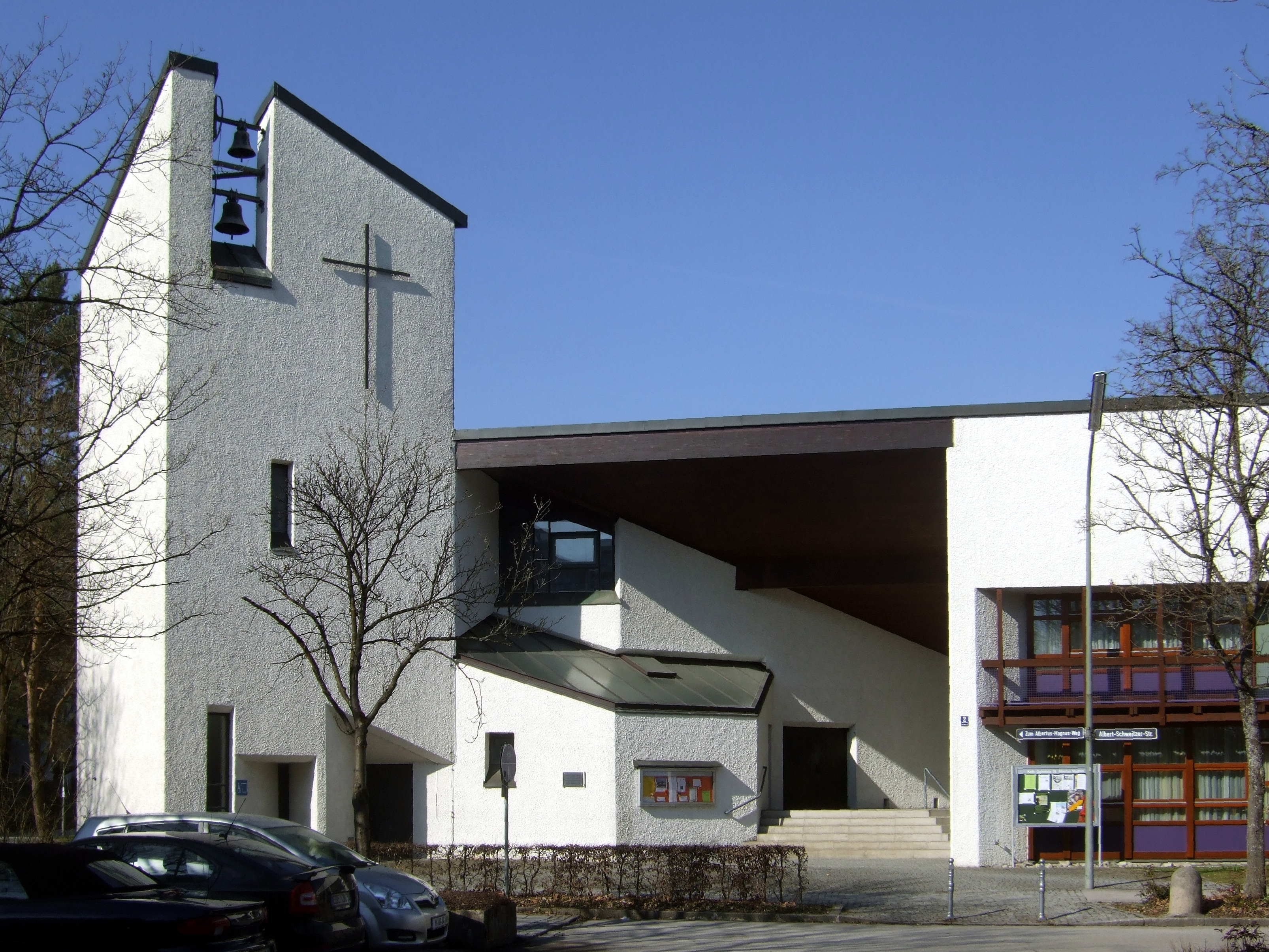 Ottobrunn: St. Albertus Magnus church